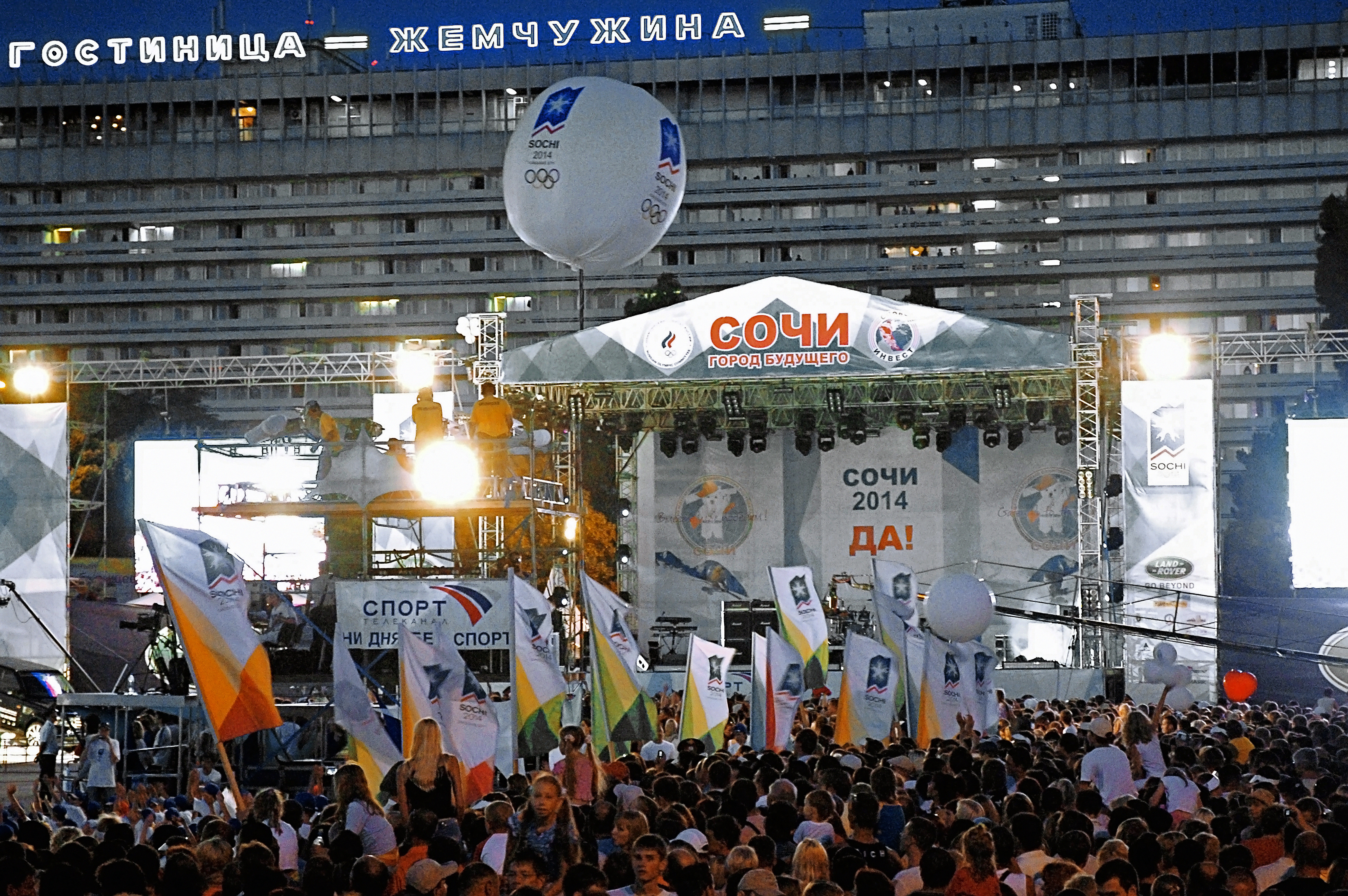 “Sochi will host 2014 Winter Olympics”. Sochi residents celebrate the International Olympic Committee's decision to hold 2014 Winter Olympics in Sochi.